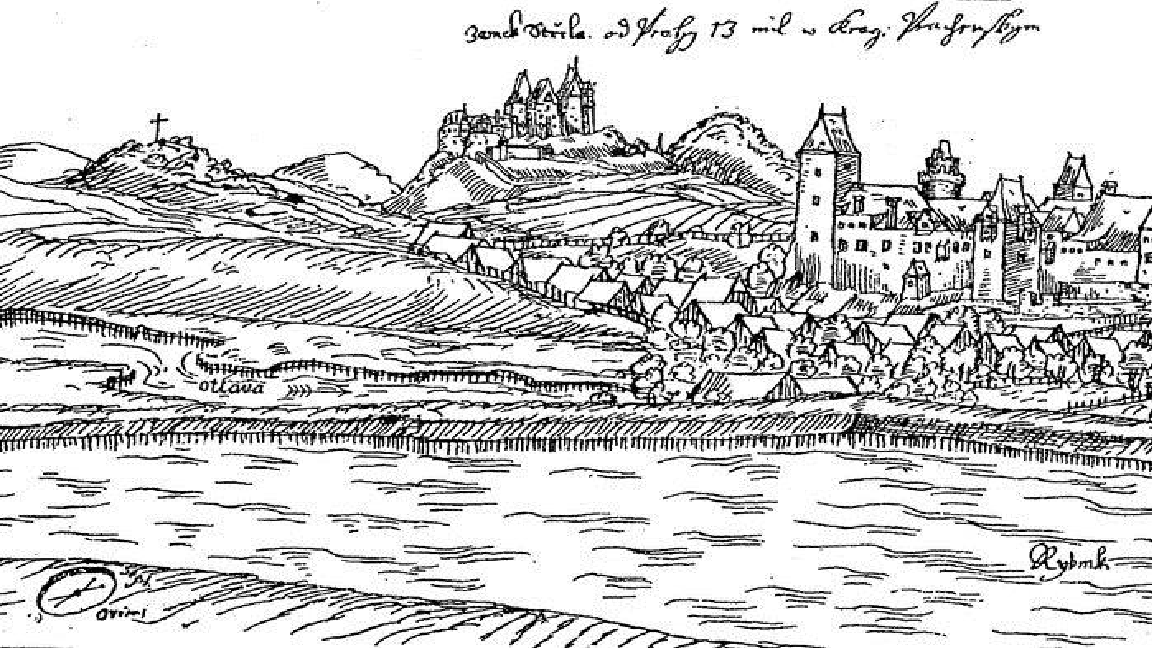 Jan Willenberg. Strakonický hrad. 1610